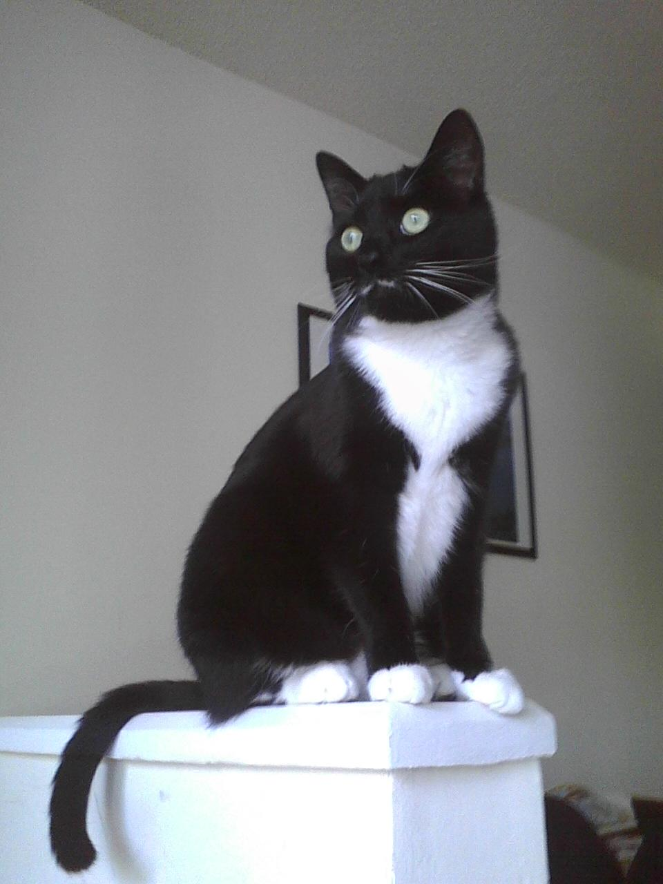 Male Tuxedo cat with a white mustache!